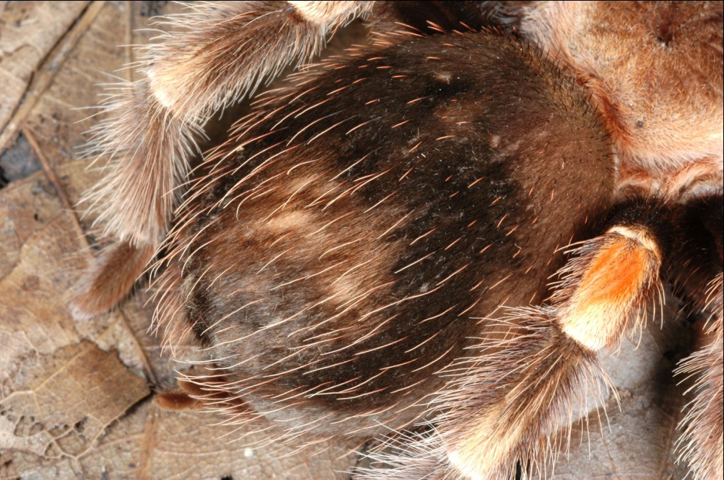 Brachypelma smithi